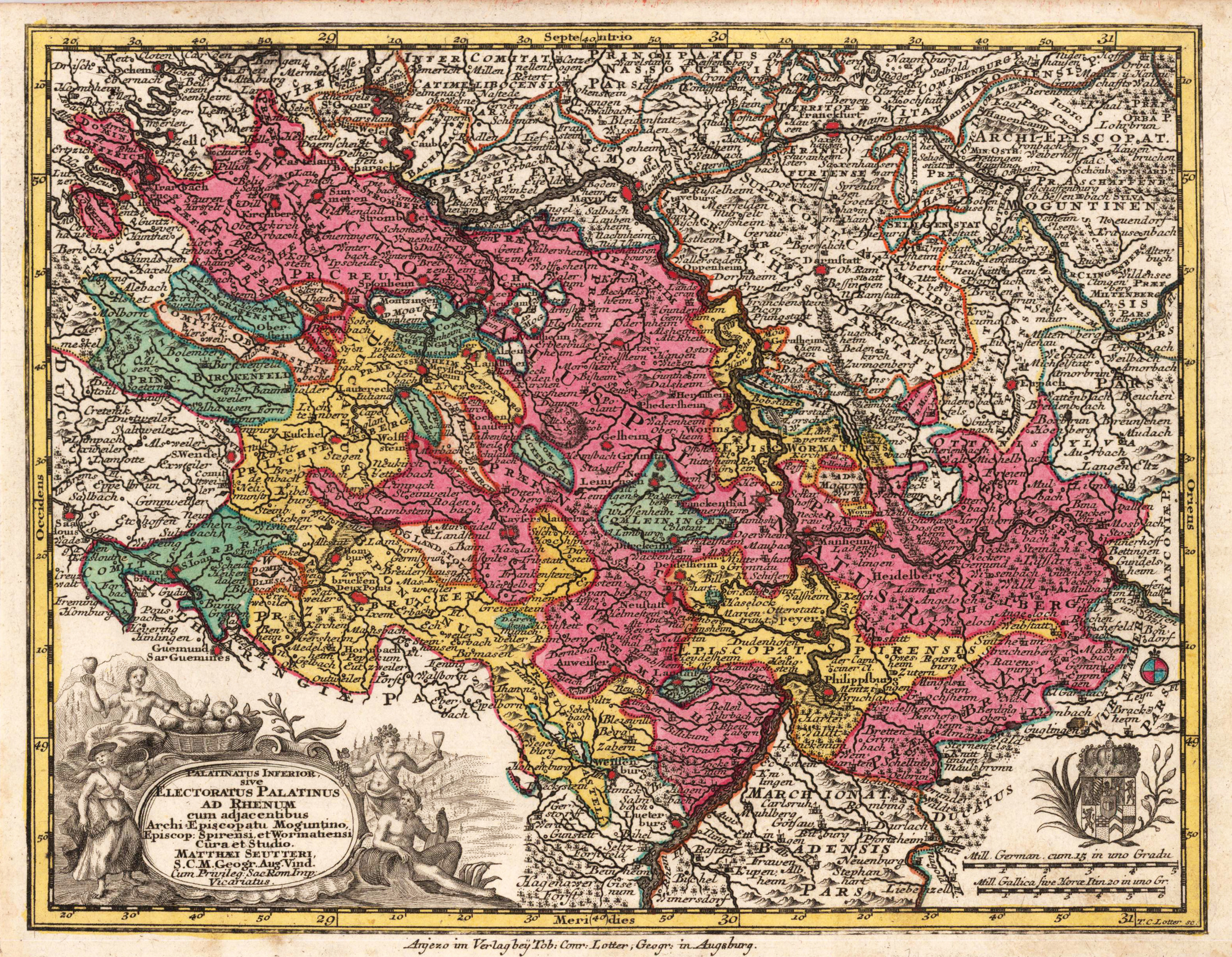 The tormented geography of the Rheinish Palatinate (in pink). Map published by Matthäus Seutter, circa 1750.